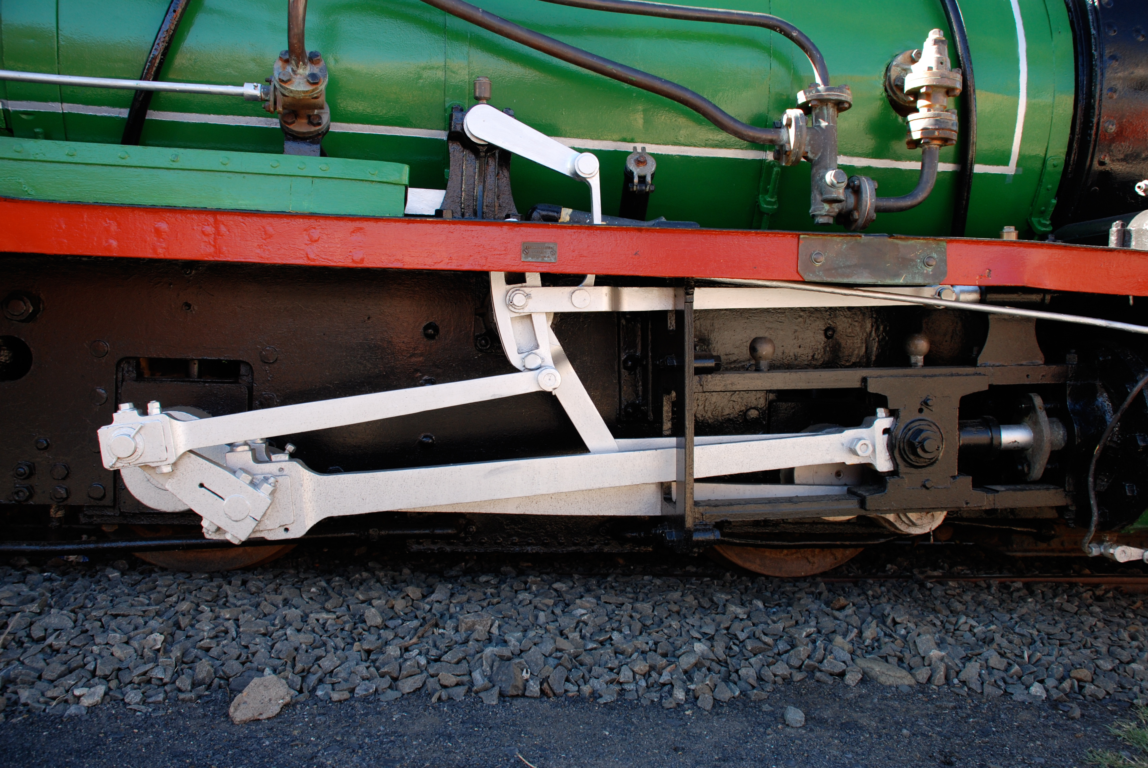 Bagnall Price valve gear on Olive at the Kimberley Big Hole diamond mine museum